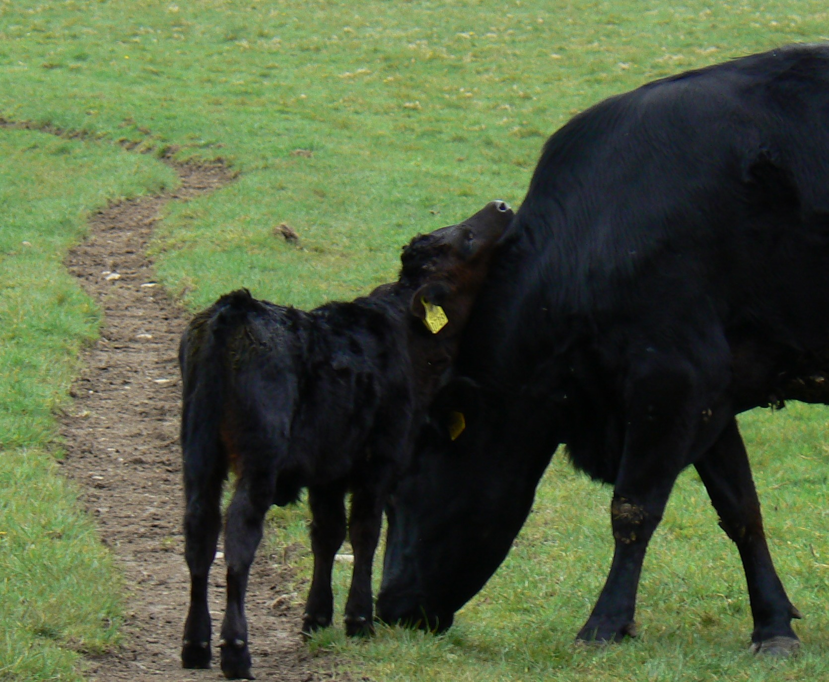 A cow and calf from the Kerry cattle herd at Killarney National Park.